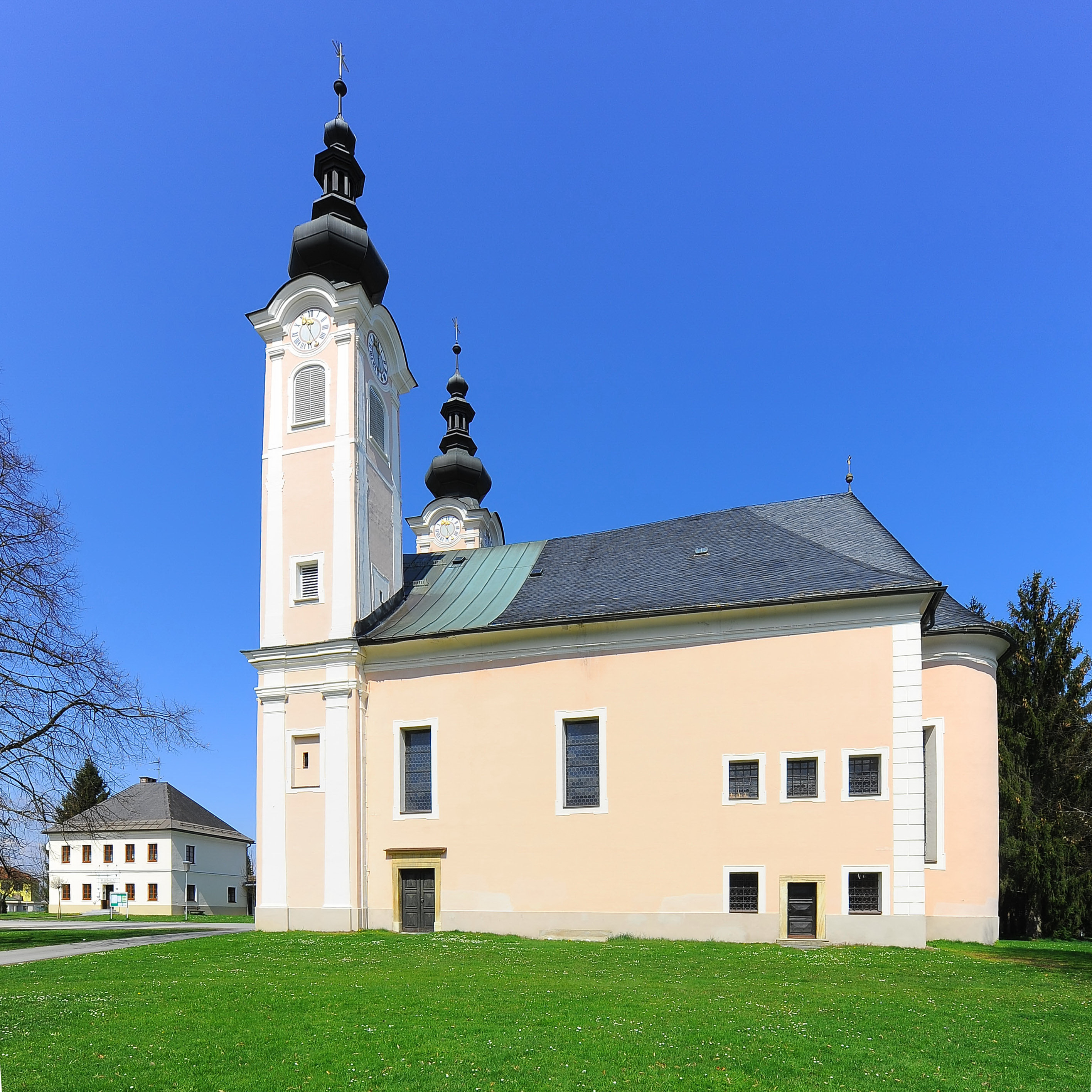 Parish church Saint Mary of Help in Ebenthal, market town Ebenthal, district Klagenfurt Land, Carinthia, Austria, EU